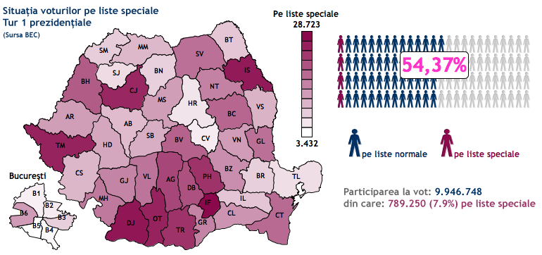 Colormap representing the county-wise number of votes on "special lists". First round of voting for the Romanian presidency, 2009 (November 22, 2009). Source of data: BEC (central election bureau).